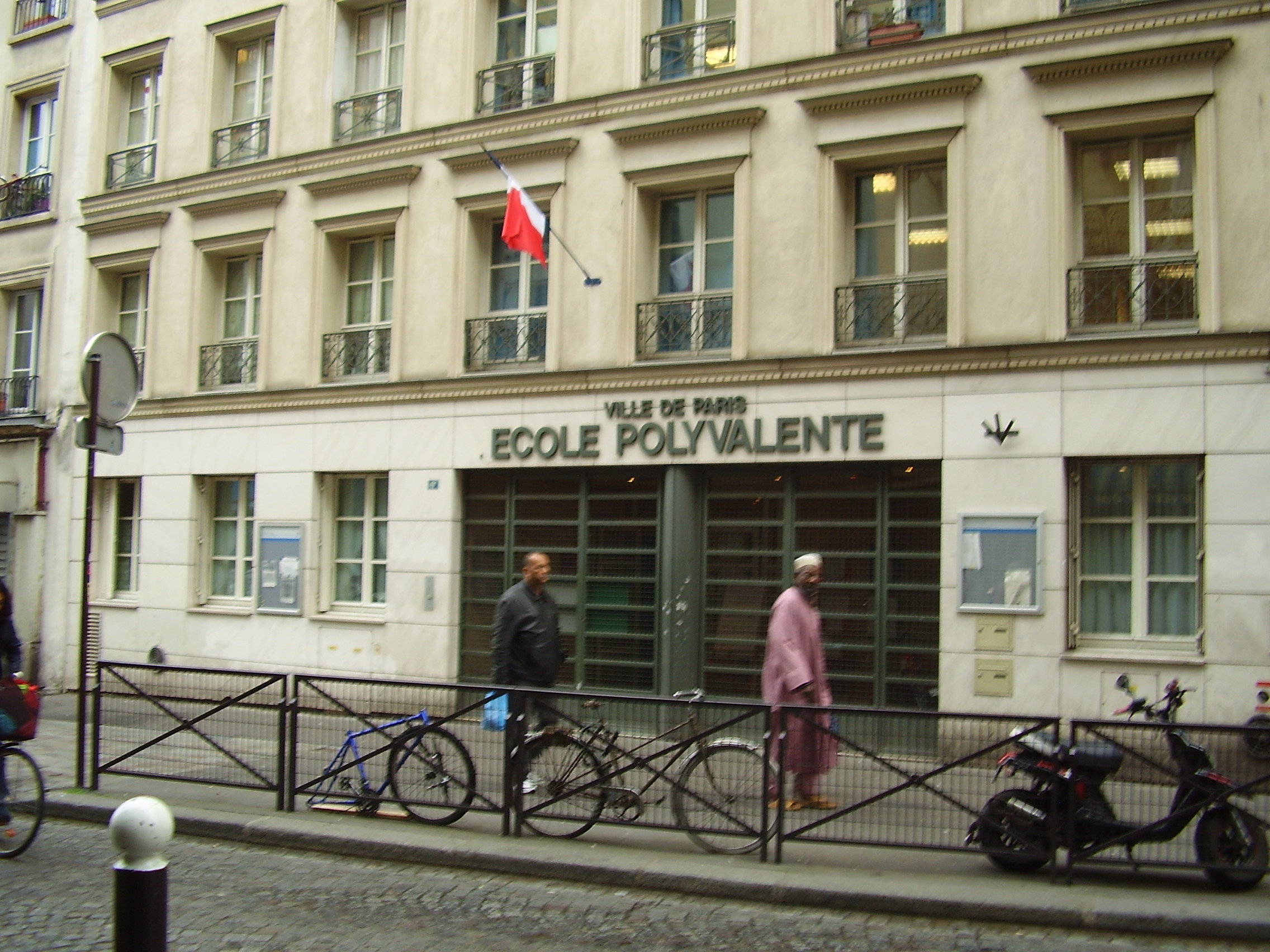 École Polyvalente de la Goutte d'Or (multi-purpose school)